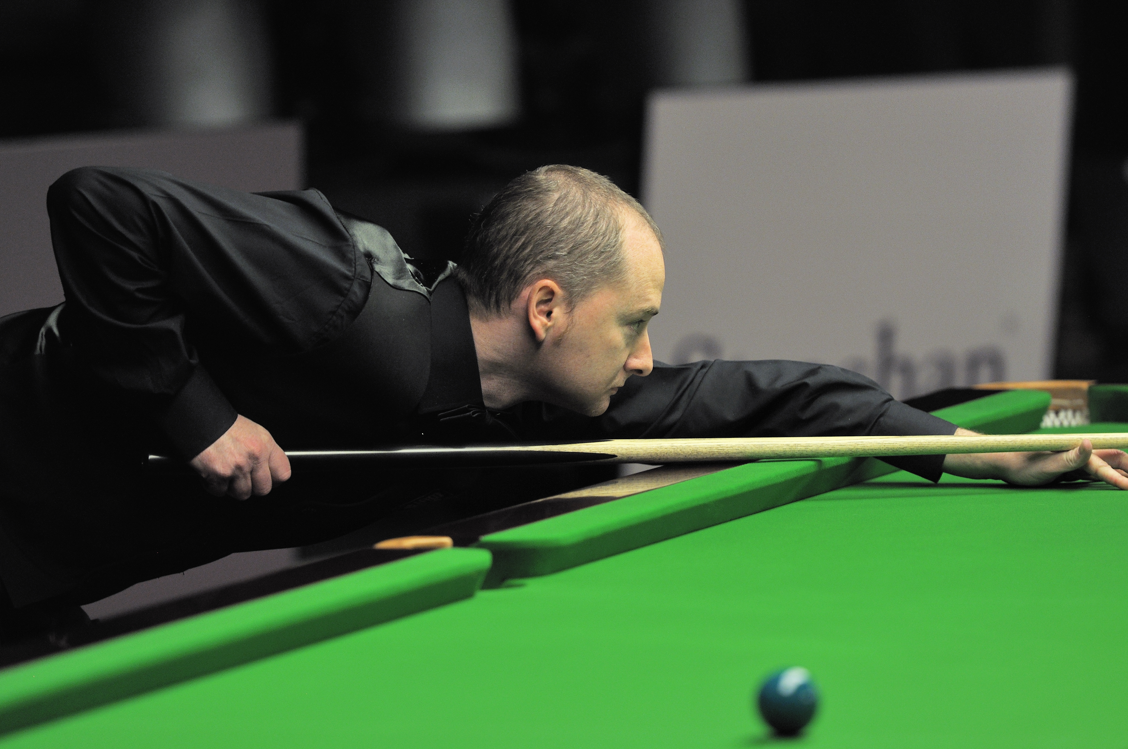 Picture taken in Berlin during the Snooker German Masters in 2014. Graeme Dott.